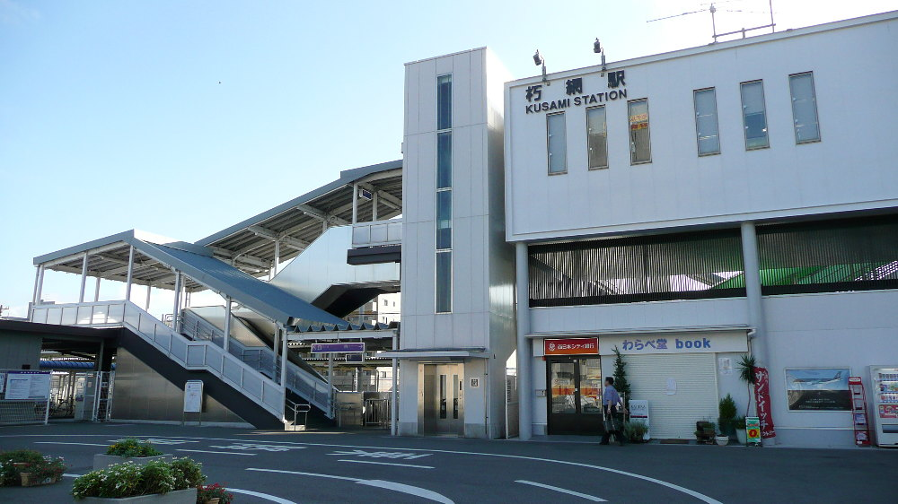 Kusami Station, Kokuraminami-ku, Kitakyushu, Fukuoka, Japan